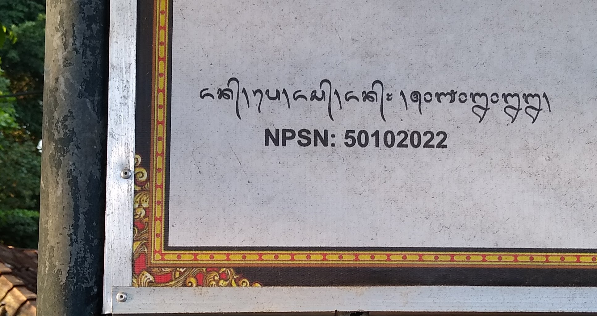 A school code in Bali, expressed in both Arabic and Balinese numerals. NPSN: 50102022. SMK. PARIWISATA PUTRA BANGSA UBUD